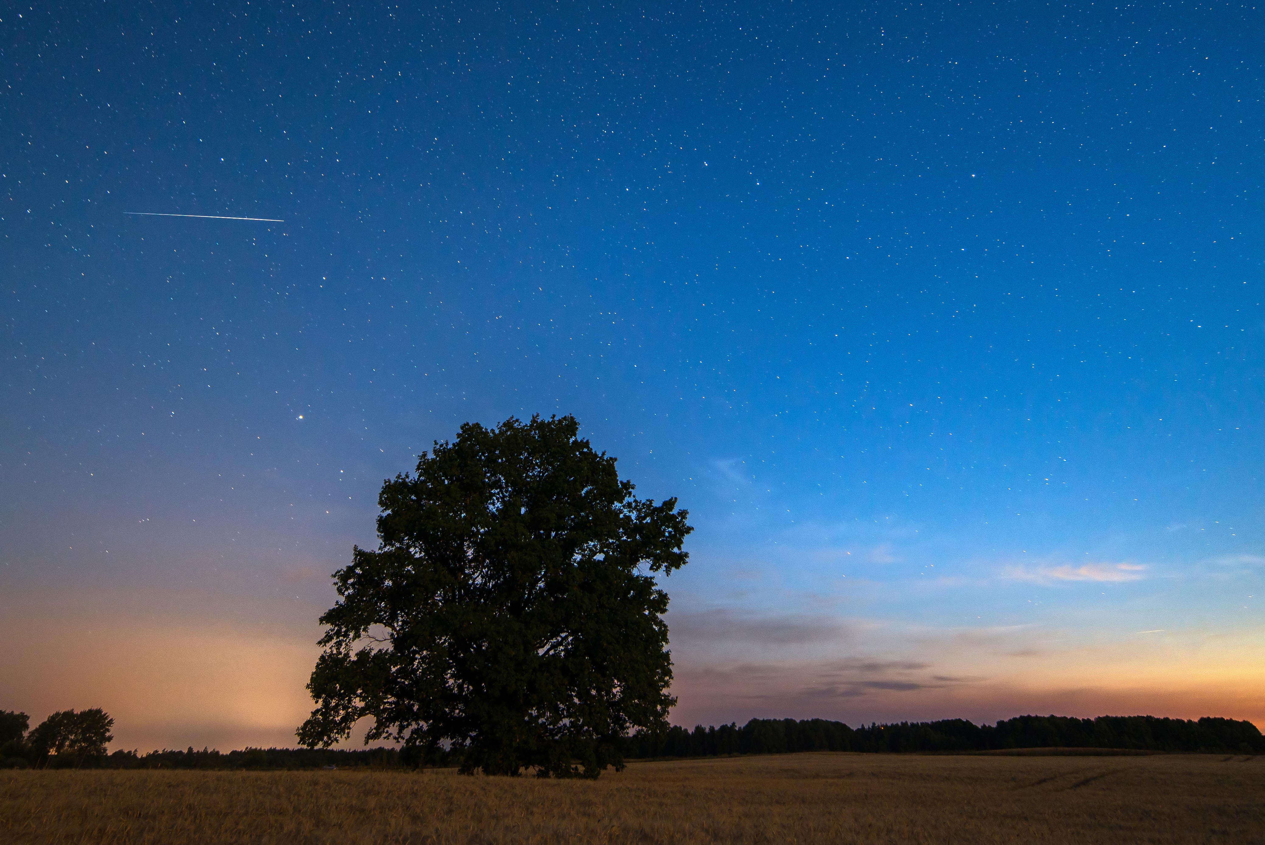 Satellite Iridium flare on a moonlight night in Võru County, Estonia. The constellation «Ursa Major» is also visible.